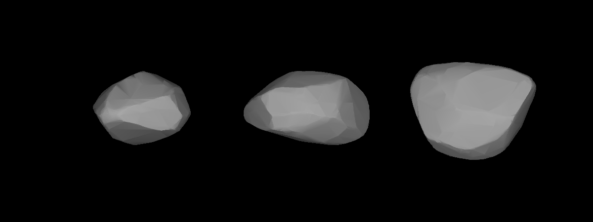 A three-dimensional model of 220 Stephania that was computed using light curve inversion techniques.